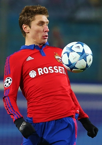 Kirill Nababkin